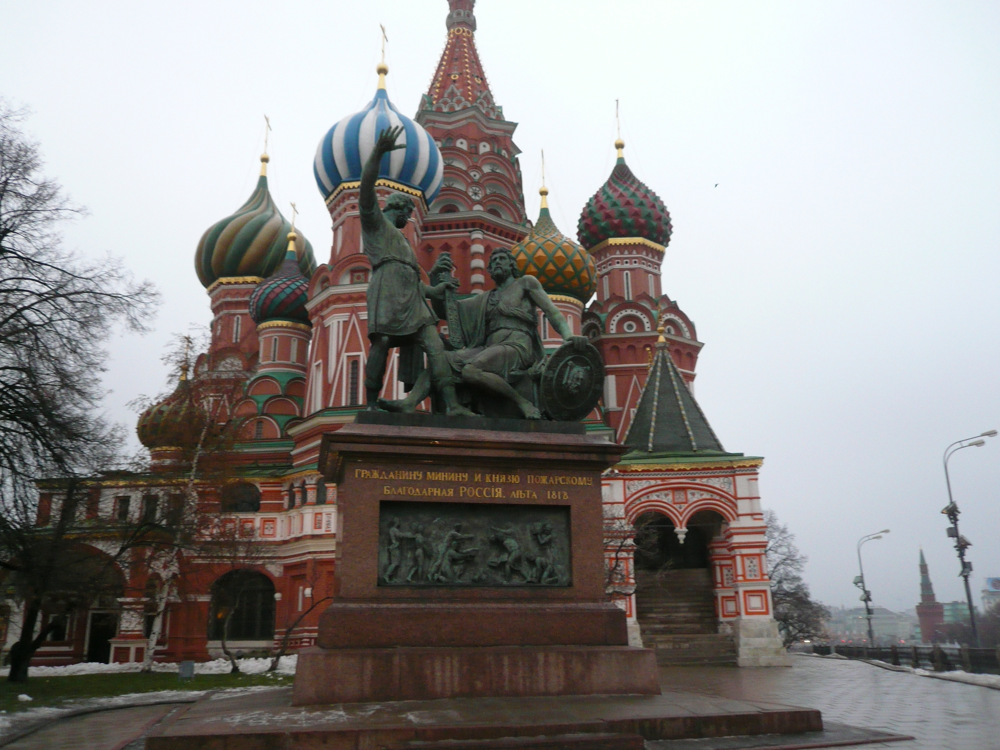 Kremlin and Red Square, Moscow (Russian Federation)